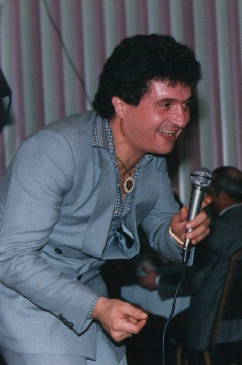 Paul Bagdadlian - 1986 Armenian singer.